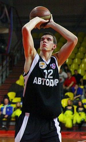 Saratrov